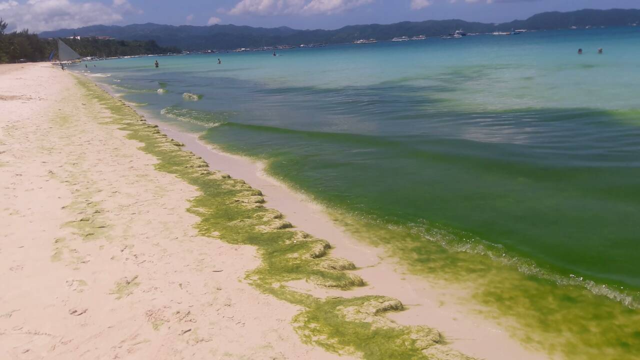 Algal bloom besieges Boracay’s shoreline a day before its closure on April 25, 2018. Environmental experts say poor waste management contributed to the worsening condition of Boracay’s seas.